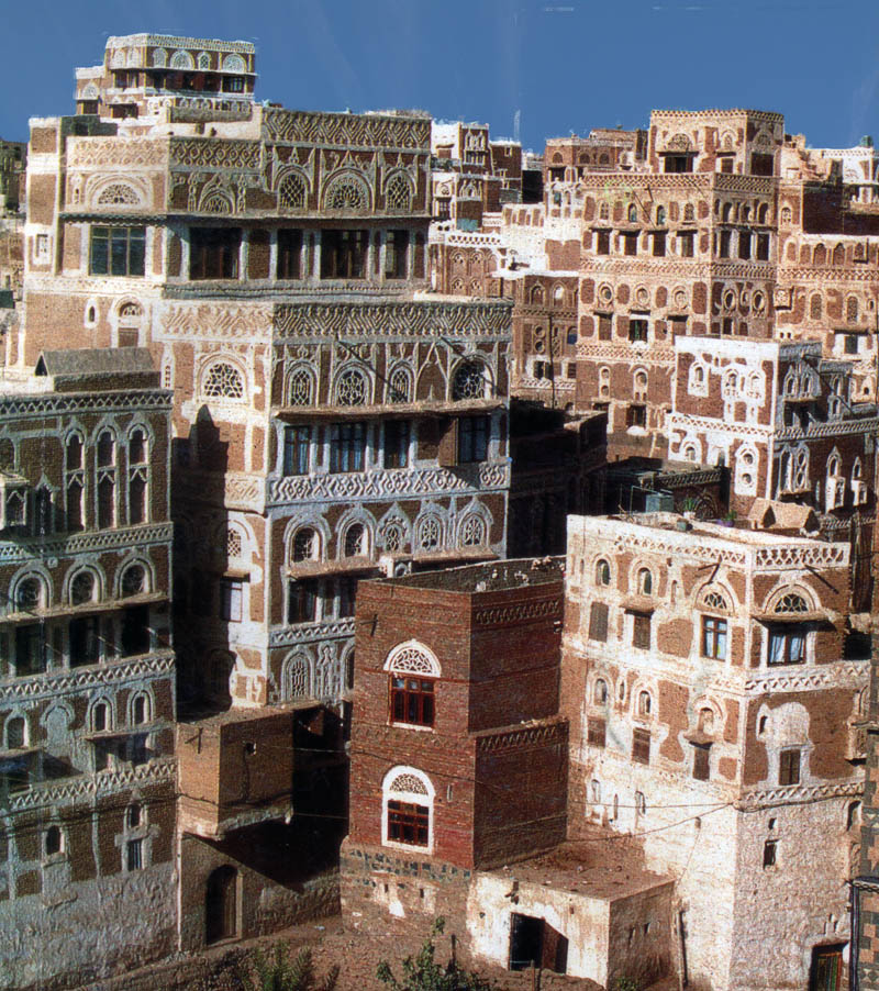 According to popular legend, Sana'a was founded by Shem, the son of Noah, not far from the mountain where Noah's ark came to rest when the flood subsided. Yemenis thus claim it to be the oldest living city in the world - upto 10,000 years old, and known to have been inhabited for over 2,500 years. Now a UNESCO World Heritage Site, the walled city's 6,500 houses and more than 100 mosques make it a living museum of traditional styles. It was never easy to reach this "Hidden Jewel of Arabia" which is situated in the heart of mountainous Yemen. Yet those who did manage to complete the dangerous and tiresome journey on donkey or camel-back from the distant coast were awestruck and inspired by the city's tall, beautifully decorated buildings, its well-stocked markets and imposing walls, gates and fortifications.